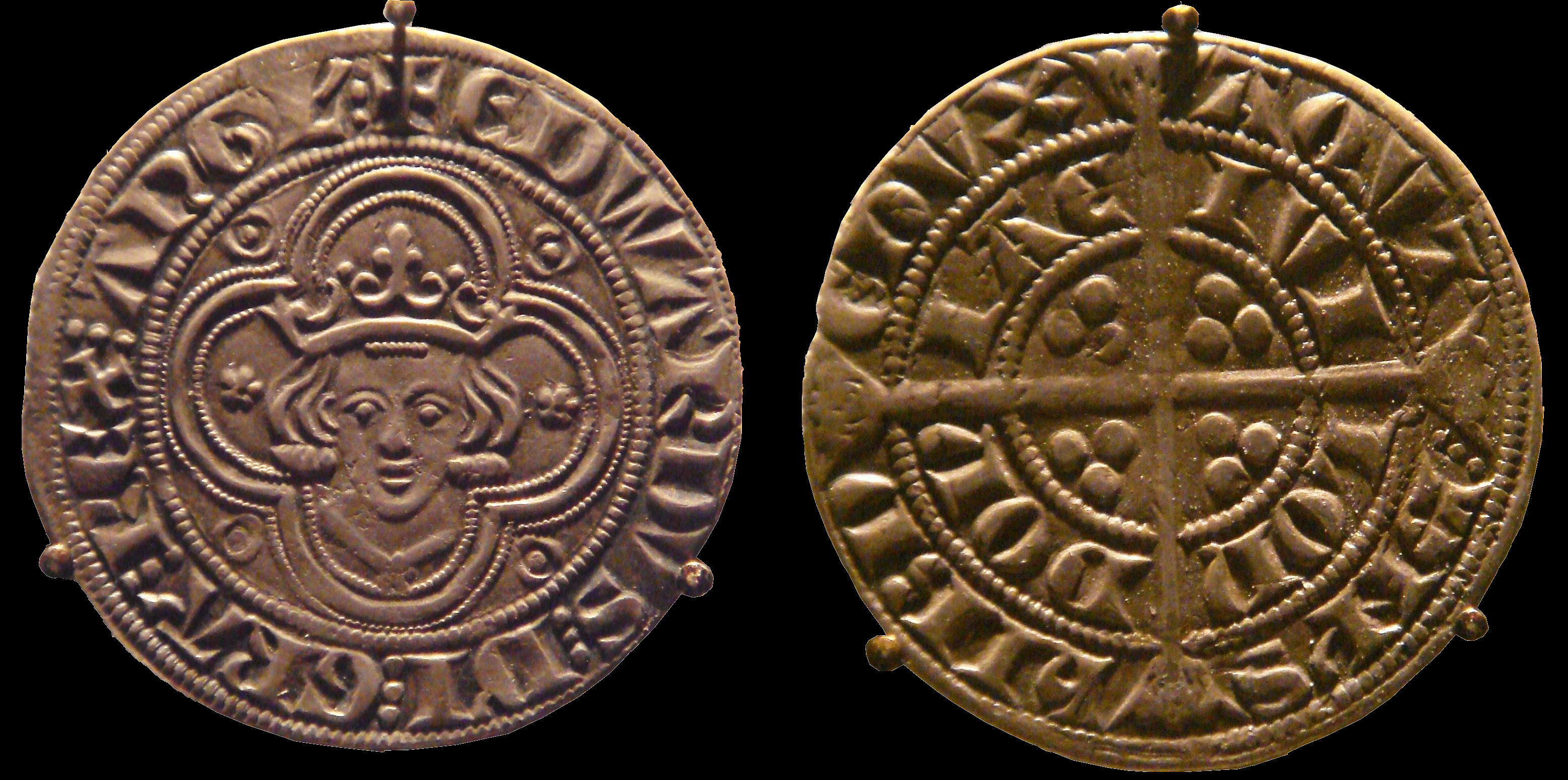 Groat_of_Edward_I_4_pences